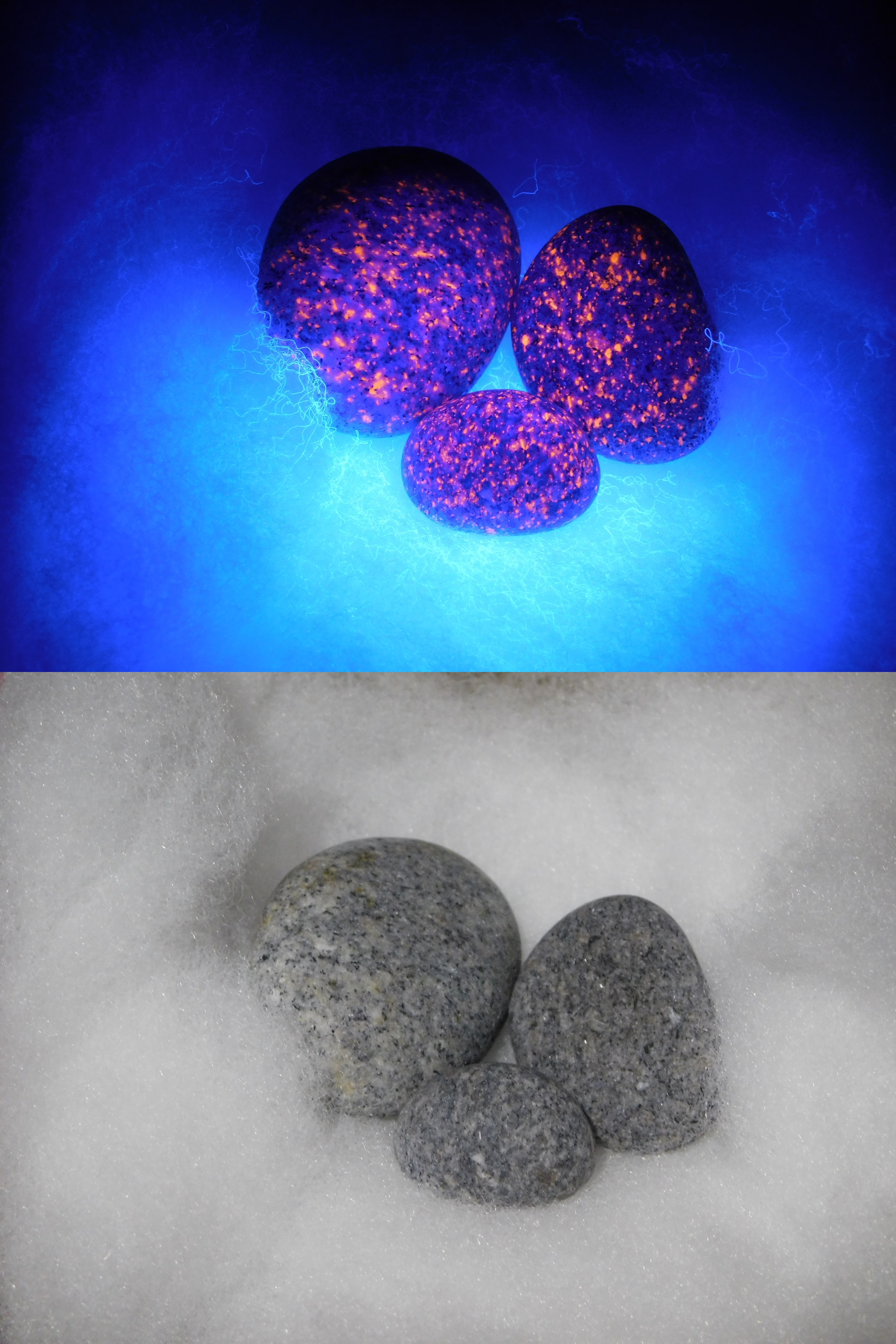 Yooperlites under UV light(top), under natural light(bottom)